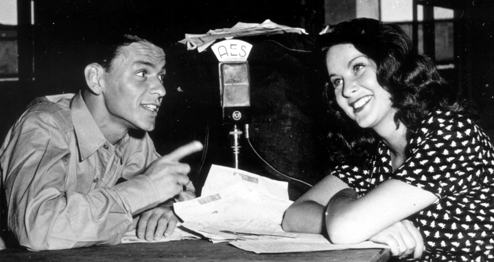 A young Frank Sinatra (left) does an interview for one of the many programs produced by the Armed Forces Radio Service for broadcast to the troops overseas during World War II with Alida Valli, an Italian actress. Unidentified date, presumably 1941 - 1945. Unidentified place.